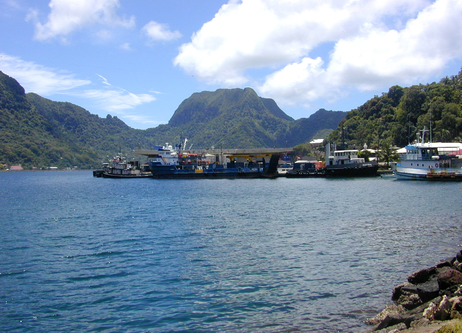 Portion of the dock area at Fagatogo, Pago Pago Harbor, American Samoa with Rainmaker Mt. (Pioa Mtn.) in the background.